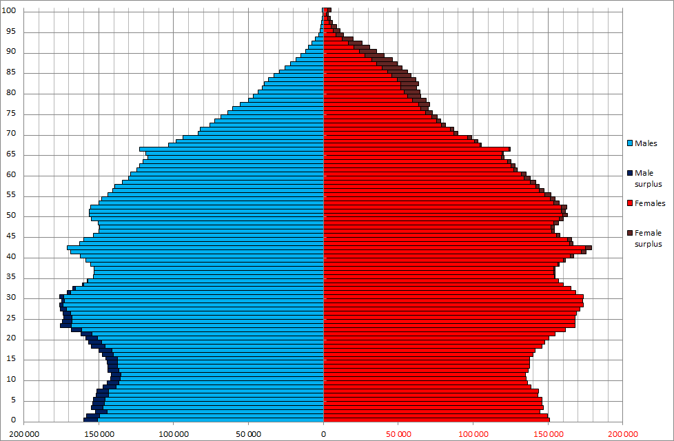 Australian population by age and sex (demographic pyramid) as of 01 July 2013